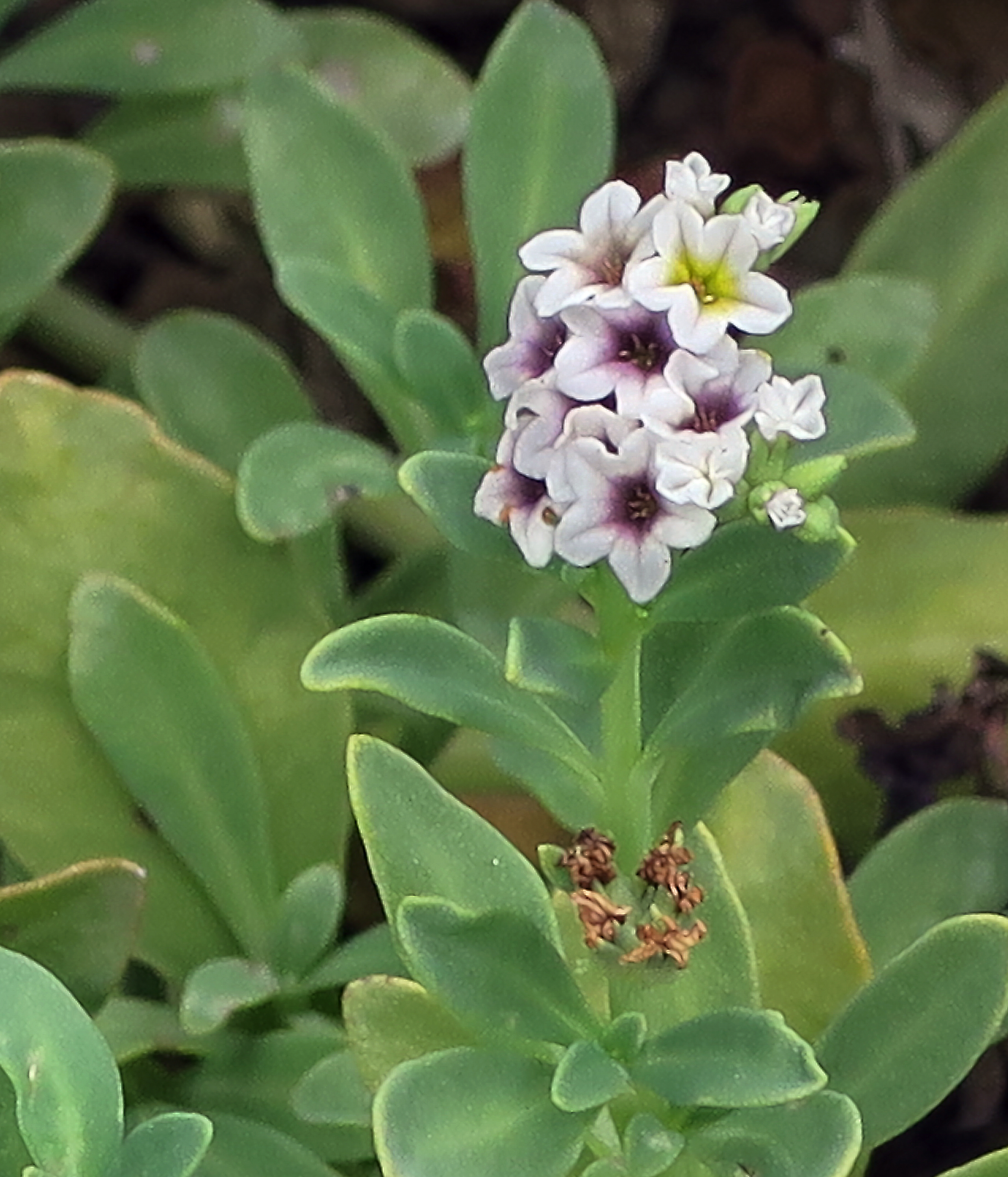 Heliotropium curassavicum—heliotrope. A wetland species the thrives in salty and alkali habitats. It is found throughout much of the United States and southwards to Argentina. The species has been introduced to the Old World and Pacific Islands where it has naturalized. The foliage is edible and sometimes known as "Chinese Parsley". Photographed at Regional Parks Botanic Garden located in Tilden Regional Park near Berkeley, CA